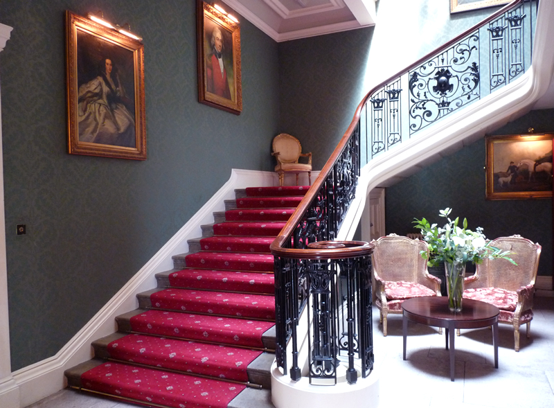 Internal shot of Addington Palace showing the famous grand staircase. Wooden canework chairs. An ideal photo opportunity if ever there was one.